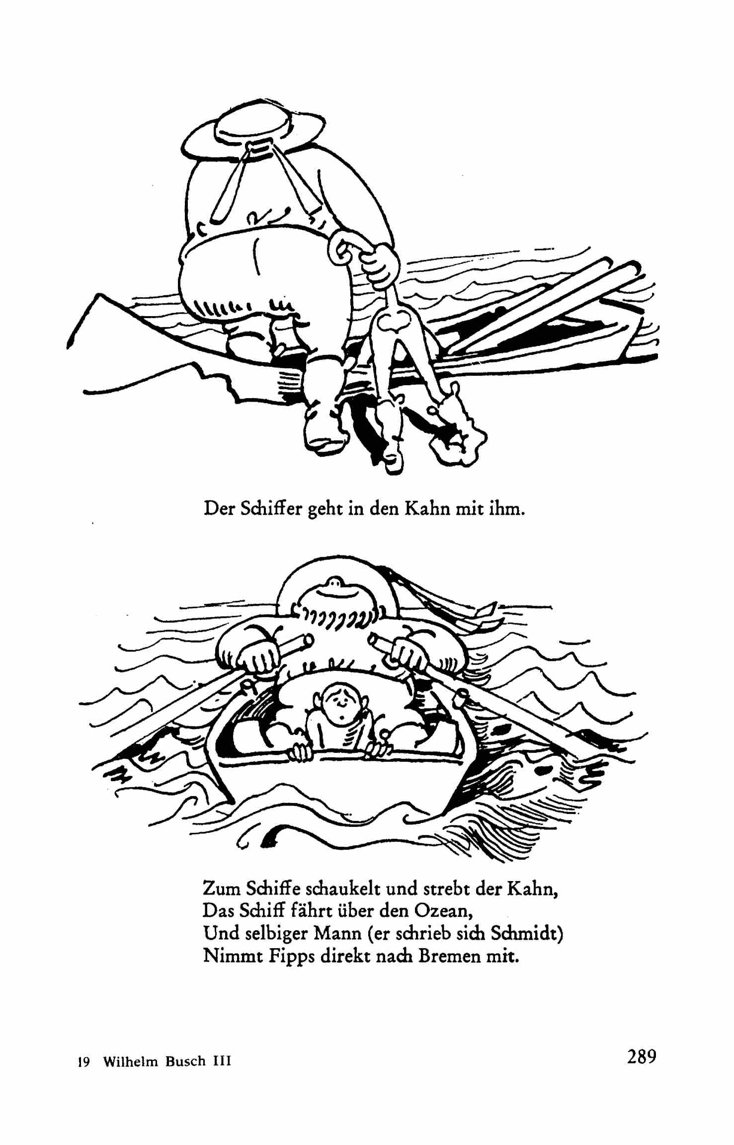 This is a scan of the historical document